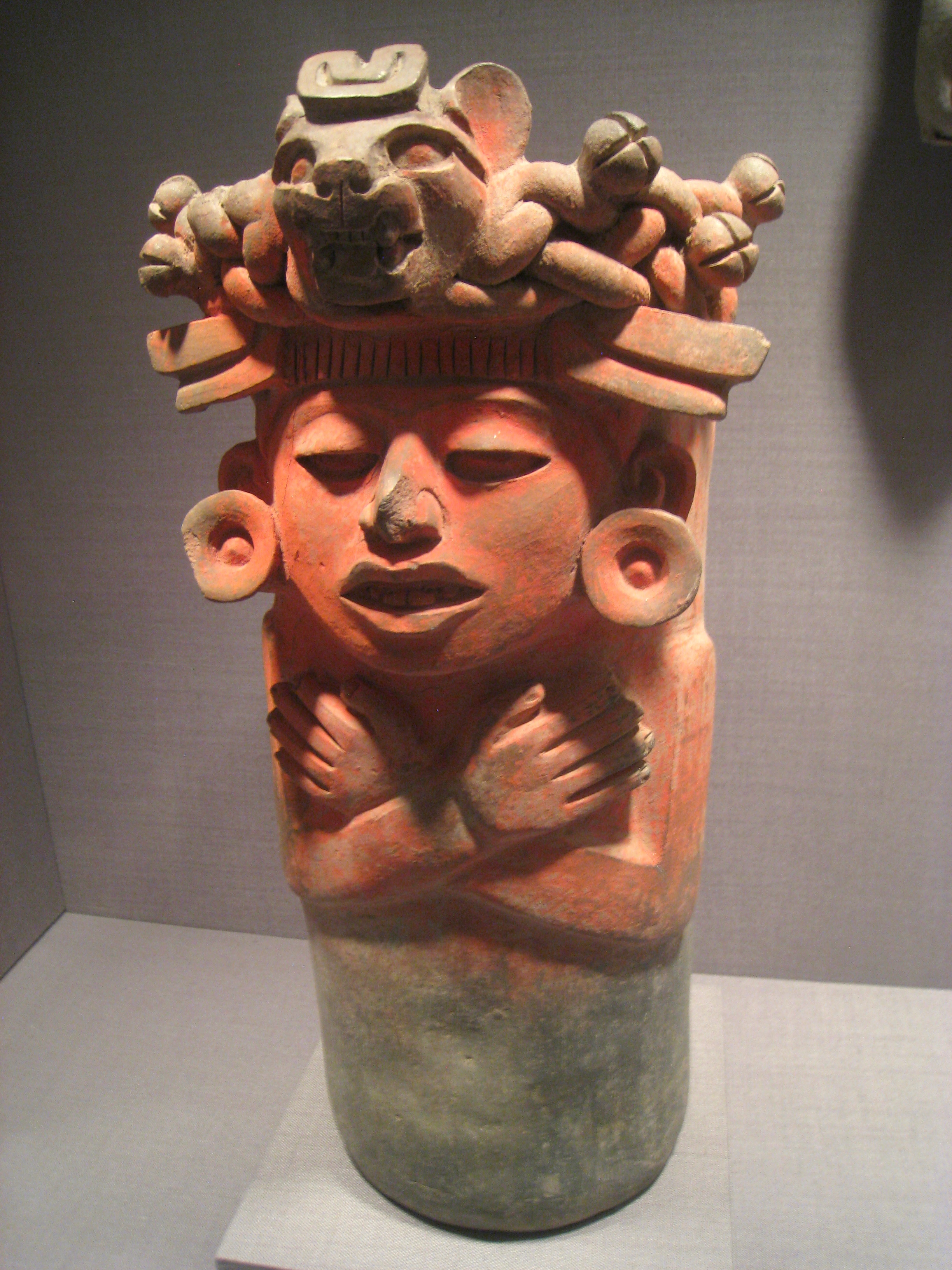 Urn with Human Figure, Mexico, Monte Albán, Late I to Early III, 300 BC - 200 AD, ceramic with vermilion, Pre-Columbian collection in the Worcester Art Museum, Worcester, Massachusetts, USA. The museum permits photography and does not restrict usage of the photographs.